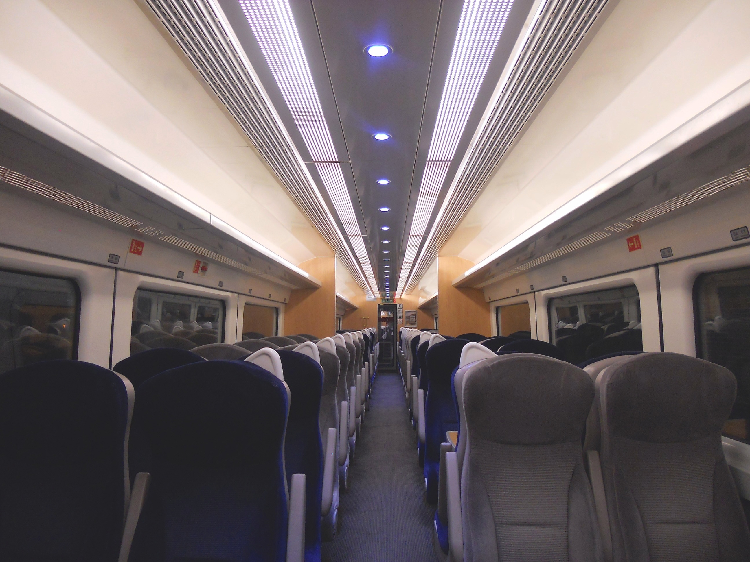 The interior of Standard Class aboard a GNER refurbished Mark 3 Trailer Standard vehicle